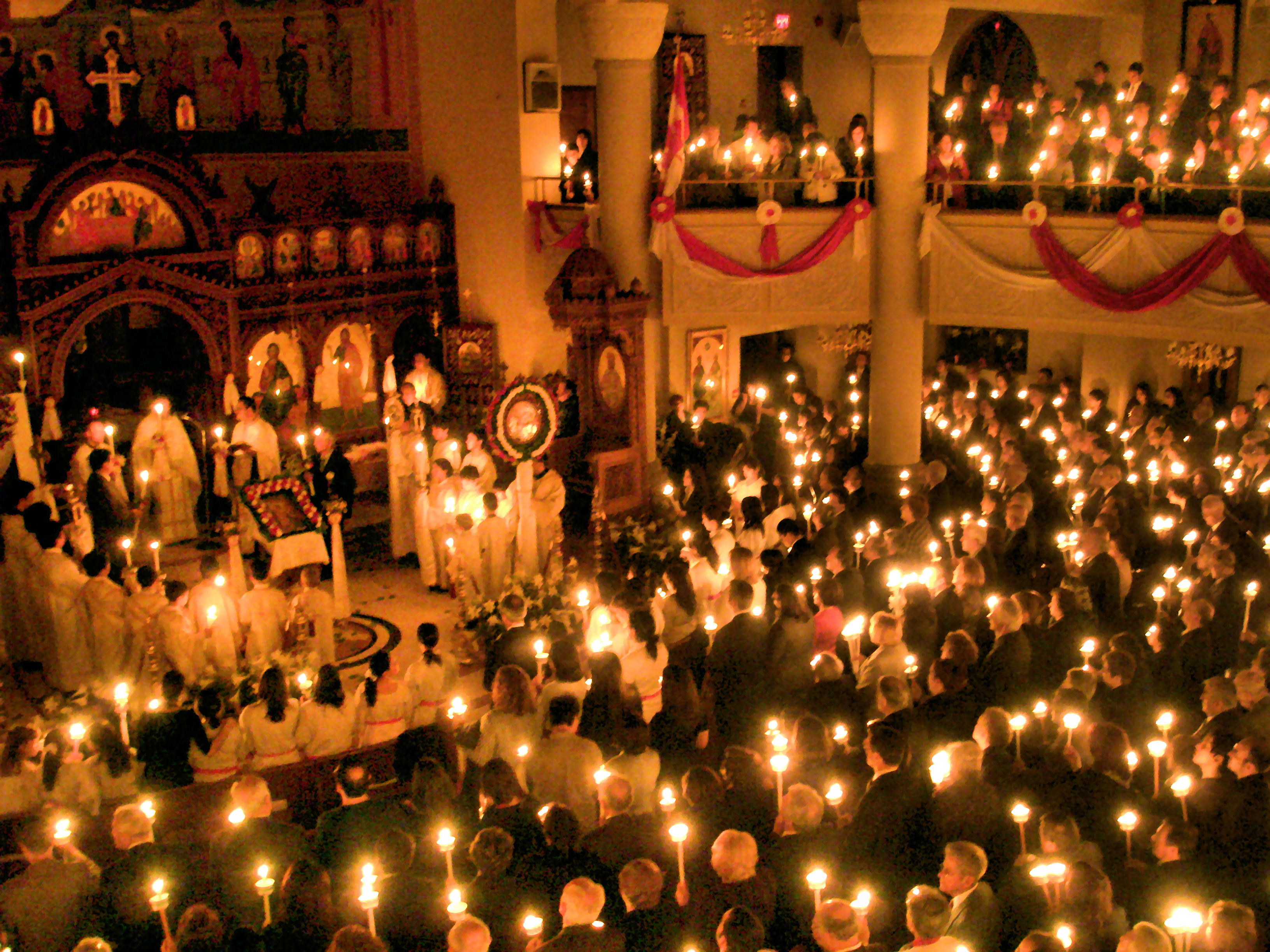 Service of the Resurrection. The Paschal Candles symbolize the Light of Christ that shines forth from His divinity, which can never be over-taken by darkness (John 1:5). During this service, the Priest comes out of the Sanctuary and stands in front of the Royal Doors holding up a lighted candle, inviting the congregation to take of this light representing the risen Christ, with the words: "Come ye and receive light from the unwaning Light, and glorify Christ, Who is arisen from the dead." Additionally, this recalls the annual Miracle of The Holy Fire (Greek Ἃγιον Φῶς, "Holy Light") that occurs every year at the Church of the Holy Sepulchre in Jerusalem on Great Saturday.Annunciation of the Virgin Mary Greek Orthodox Cathedral, Toronto.